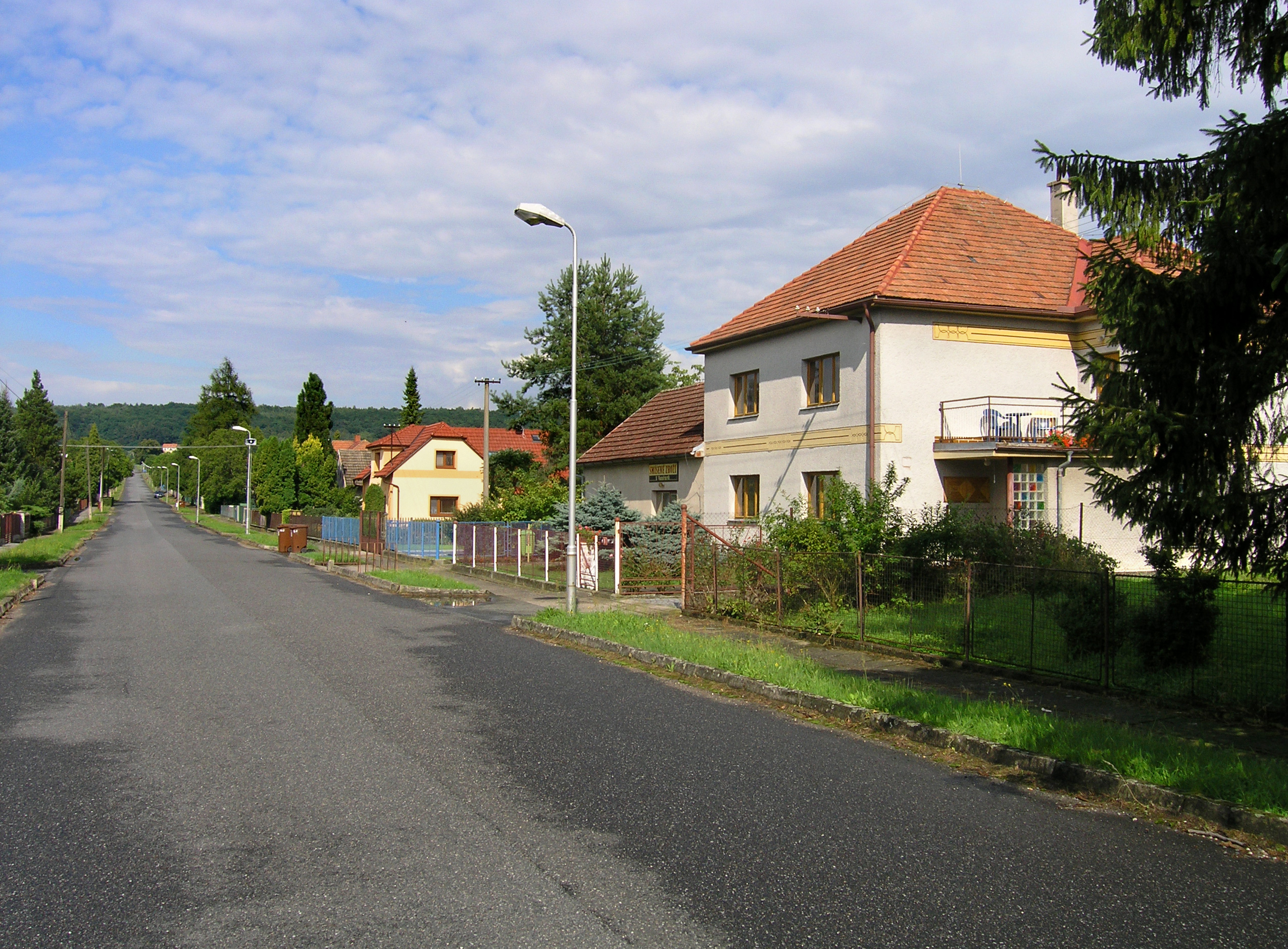 Main street in Svobodná Ves, part of Horka I village, Czech Republic